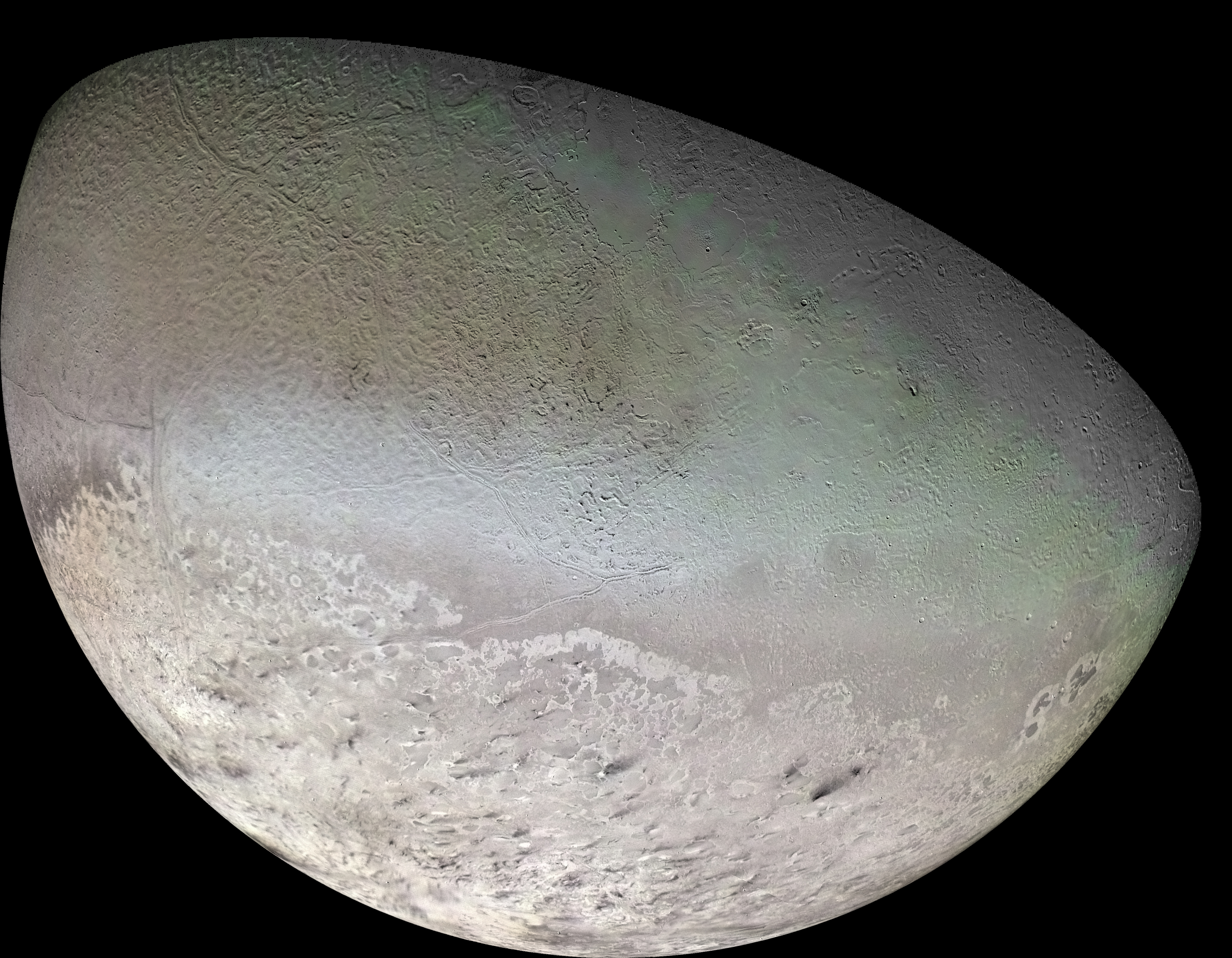 Global color mosaic of Triton, taken in 1989 by Voyager 2 during its flyby of the Neptune system. Color was synthesized by combining high-resolution images taken through orange, violet, and ultraviolet filters; these images were displayed as red, green, and blue images and combined to create this color version. With a radius of 1,350 (839 mi), about 22% smaller than Earth's moon, Triton is by far the largest satellite of Neptune. It is one of only three objects in the Solar System known to have a nitrogen-dominated atmosphere (the others are Earth and Saturn's giant moon, Titan). Triton has the coldest surface known anywhere in the Solar System (38 K, about -391 degrees Farenheit); it is so cold that most of Triton's nitrogen is condensed as frost, making it the only satellite in the Solar System known to have a surface made mainly of nitrogen ice. The pinkish deposits constitute a vast south polar cap believed to contain methane ice, which would have reacted under sunlight to form pink or red compounds. The dark streaks overlying these pink ices are believed to be an icy and perhaps carbonaceous dust deposited from huge geyser-like plumes, some of which were found to be active during the Voyager 2 flyby. The bluish-green band visible in this image extends all the way around Triton near the equator; it may consist of relatively fresh nitrogen frost deposits. The greenish areas include what is called the cataloupe terrain, whose origin is unknown, and a set of "cryovolcanic" landscapes apparently produced by icy-cold liquids (now frozen) erupted from Triton's interior.